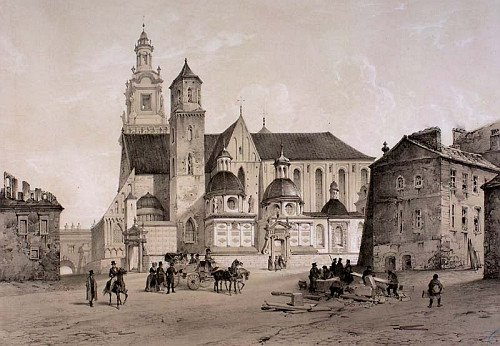 Lithograph of Krakow Cathedral, from Voyages de la Commision scientifique de Nord: en Scandinavie, en Laponie, au Spitzberg et aux Feroe, pendant les années 1838, 1839 et 1849, sur la corvette La Recherche (Volume II)